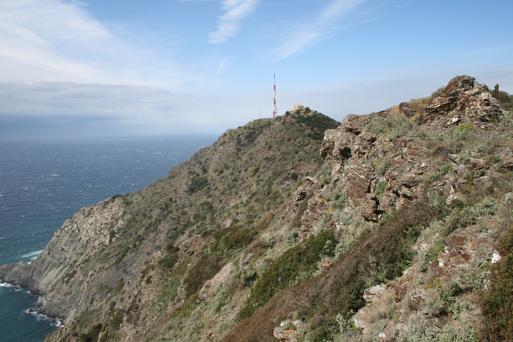 Cap Sicié, a Var mountain.